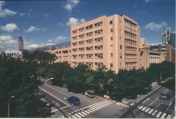 Taipei Campus, National Taipei College of Business.